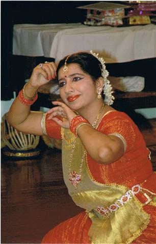 Performinng Kathak at Kathak Kendra